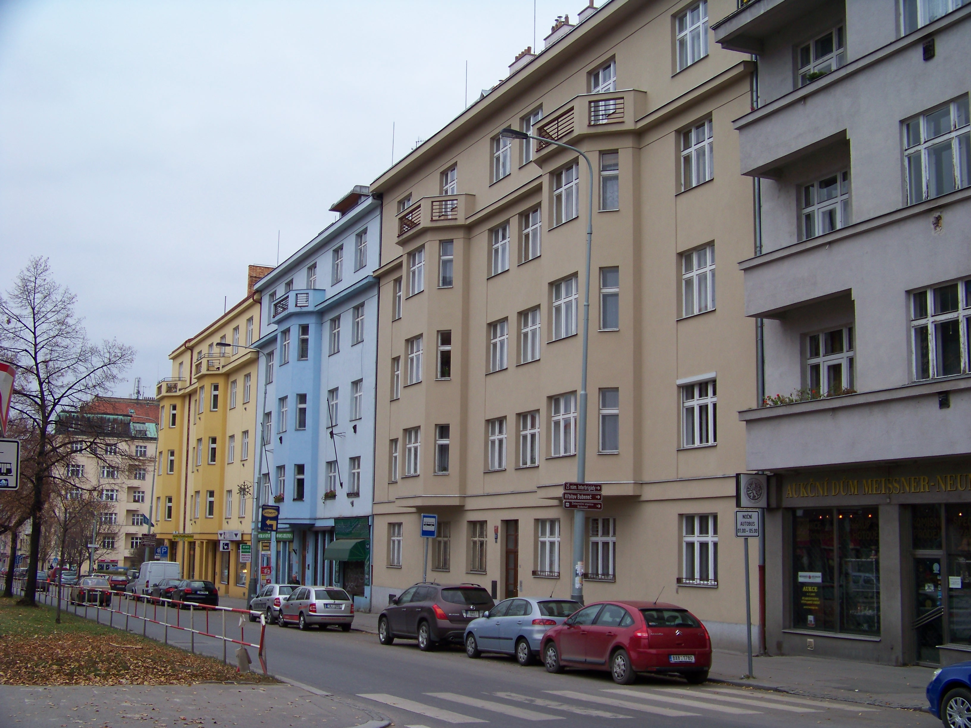 Bubeneč, Prague, the Czech Republic. Jugoslávských partyzánů Street. - Google Maps - Google Earth